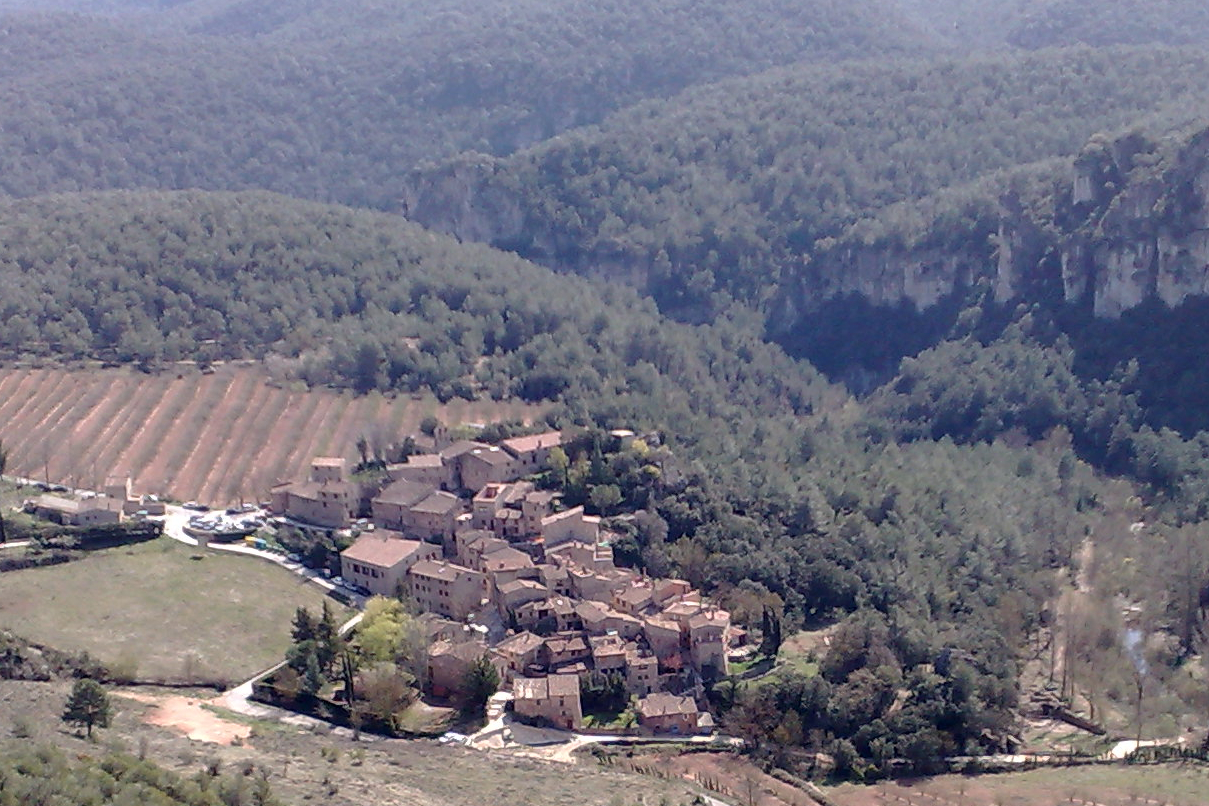 Farena from the Picó Gros